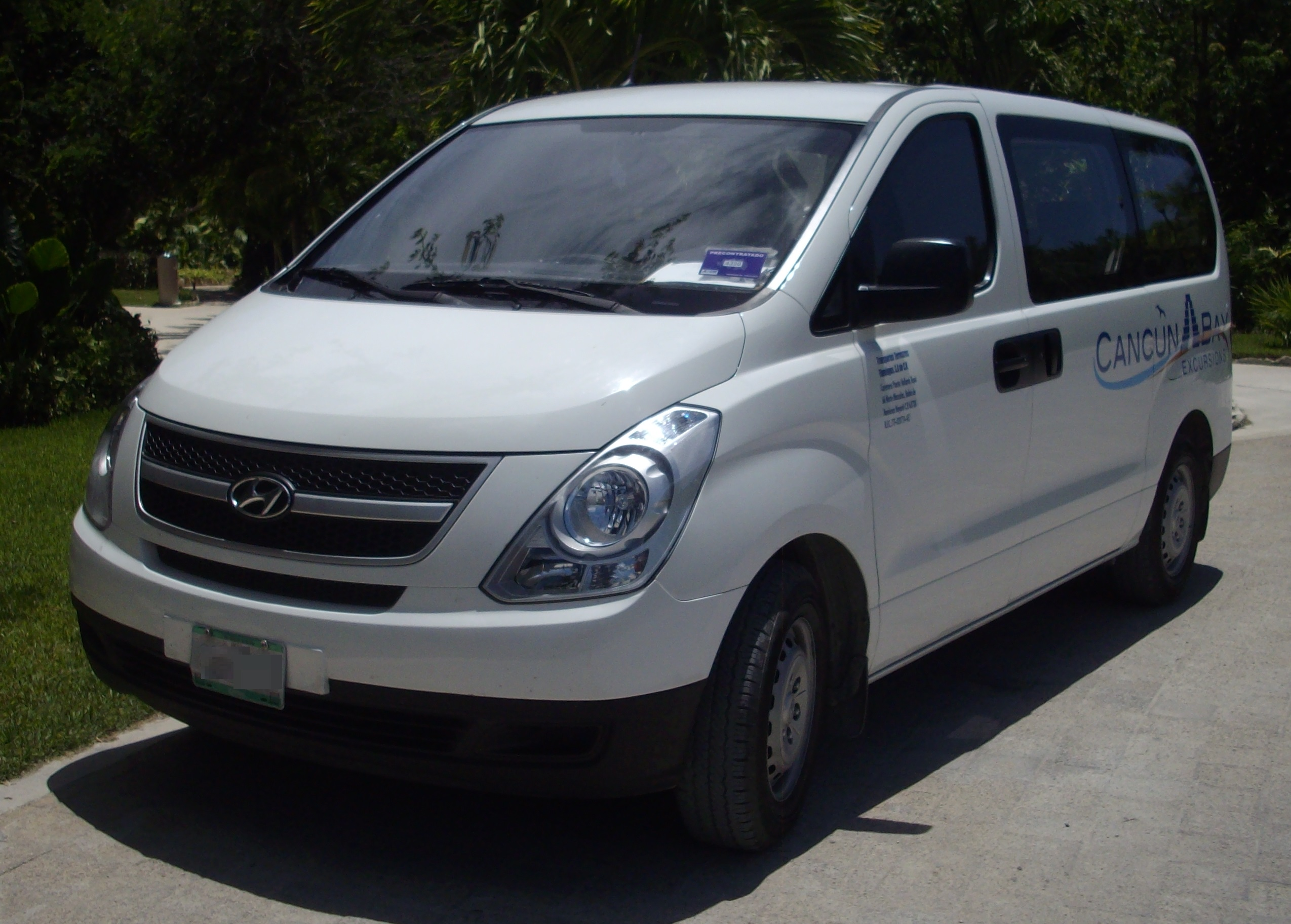 Hyundai H100 By Dodge Or Ram photographed in Quintana Roo, Mexico.